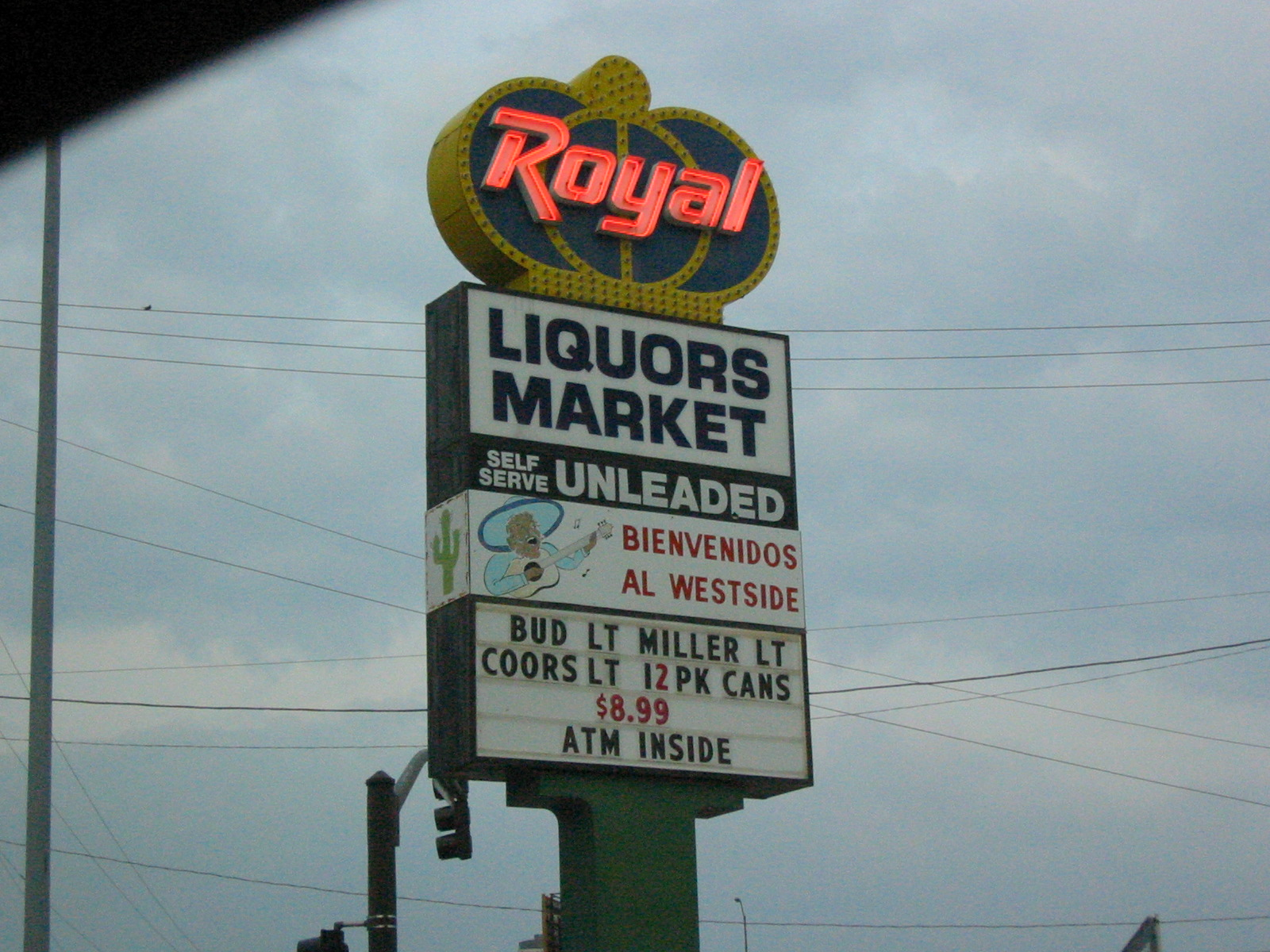 Roadsign along Southwest Boulevard in Kansas City, MO, USA